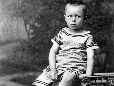 Thomas Mann im Alter von sechs Jahren